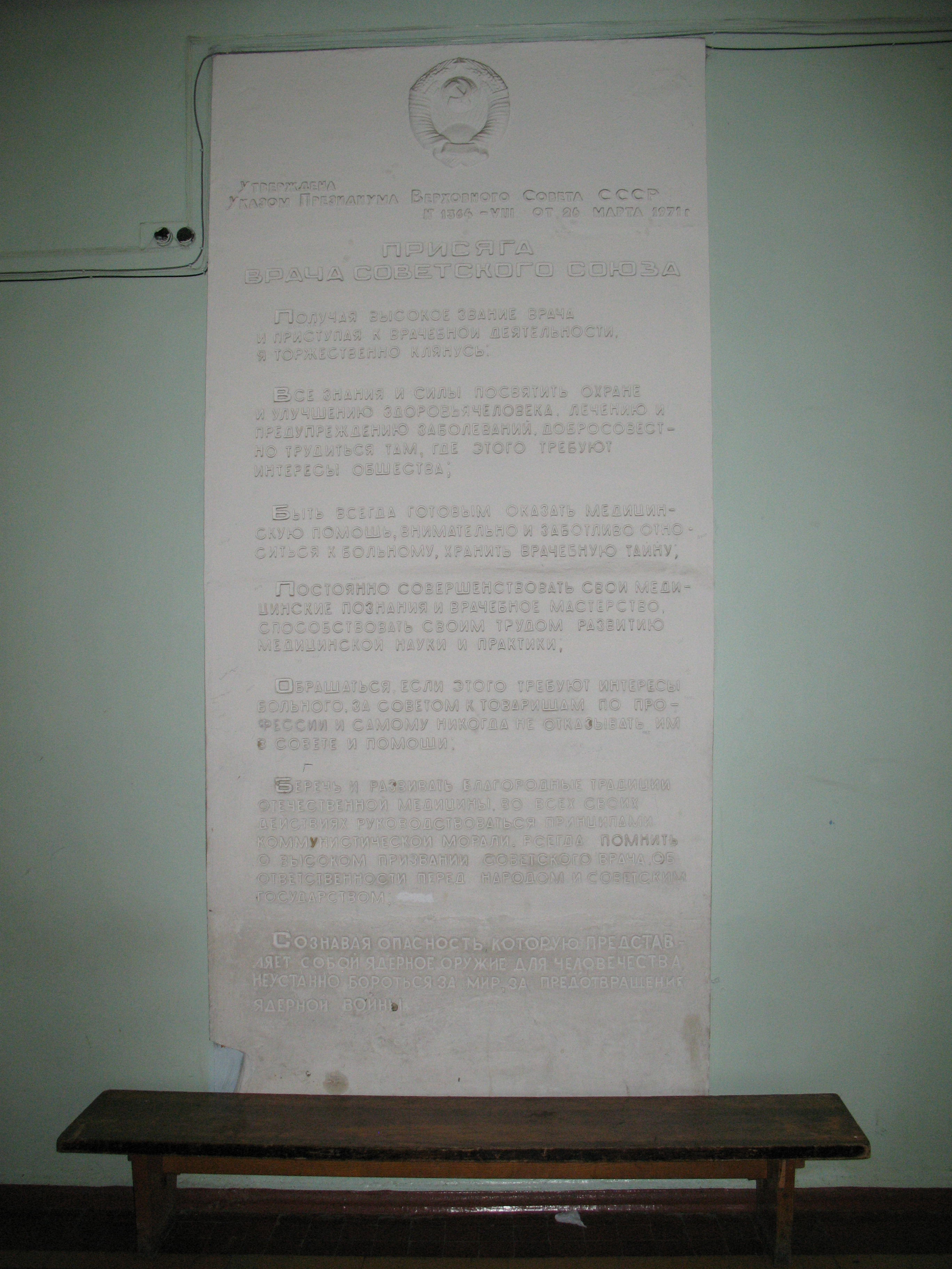 Donetsk medical institute of the name of Maxim Gorkij. Photo, in the hall of the first floors of morphological corps, before a large sloping hall (BNZ).